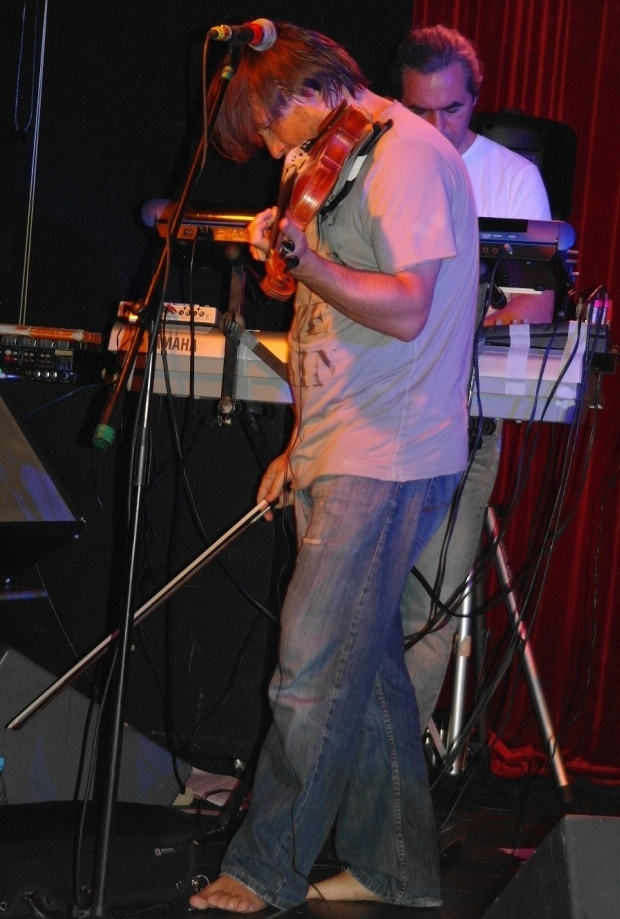 Concert le 18 juillet 2010